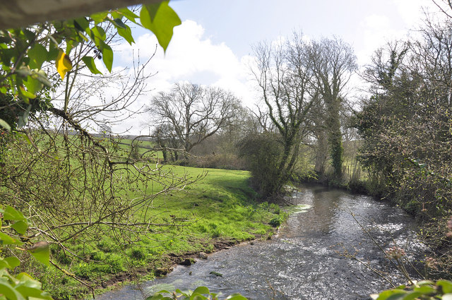 The River Thaw beside Howe Mill near The Herberts - Cowbridge